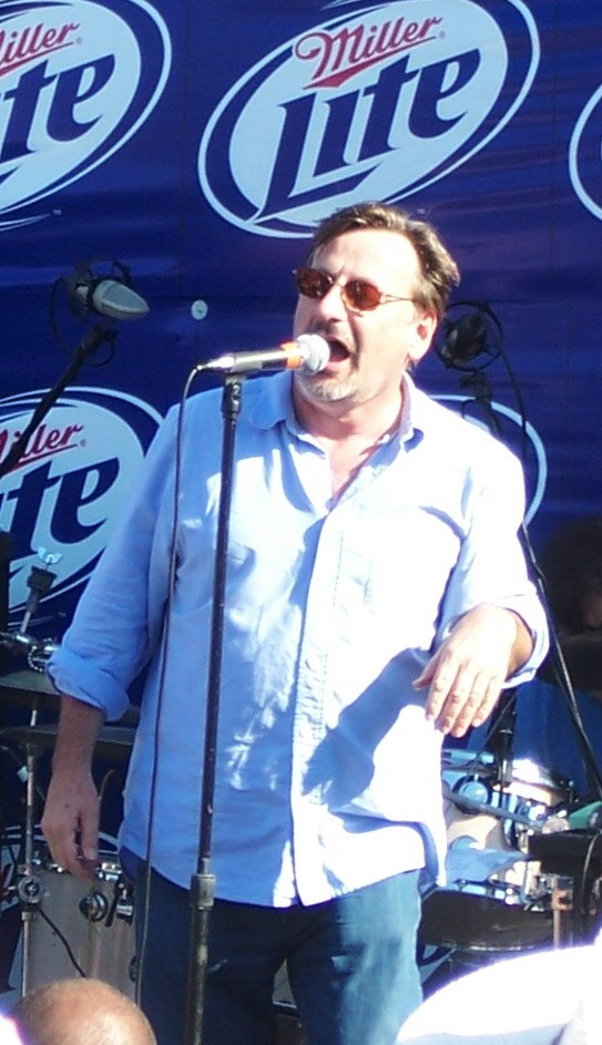 Southside Johnny in performance with the Asbury Jukes, at their annual Bar A end of summer show, Lake Como, New Jersey